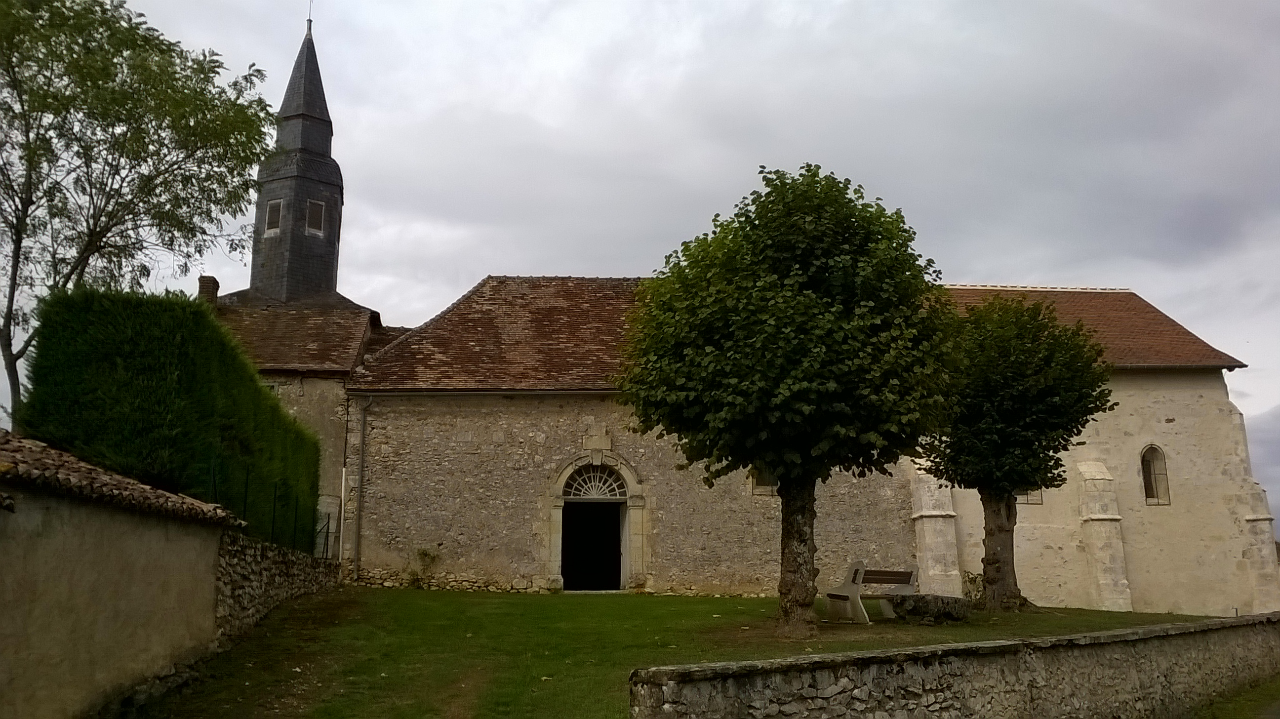 Saint-Hilaire Church at Cenan nr La Puye .